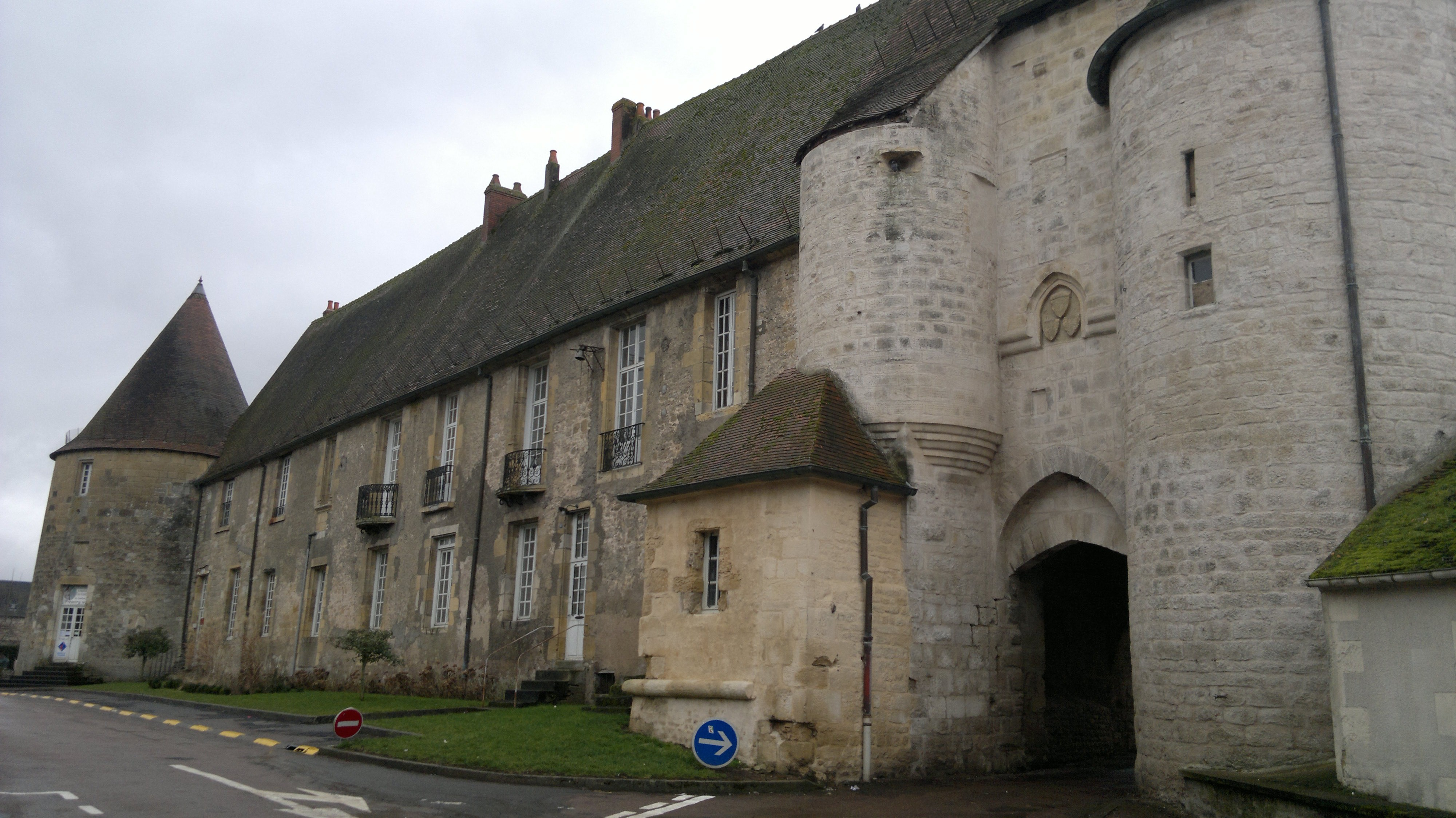 Bishop's castle in Prémery, Nièvre, France.